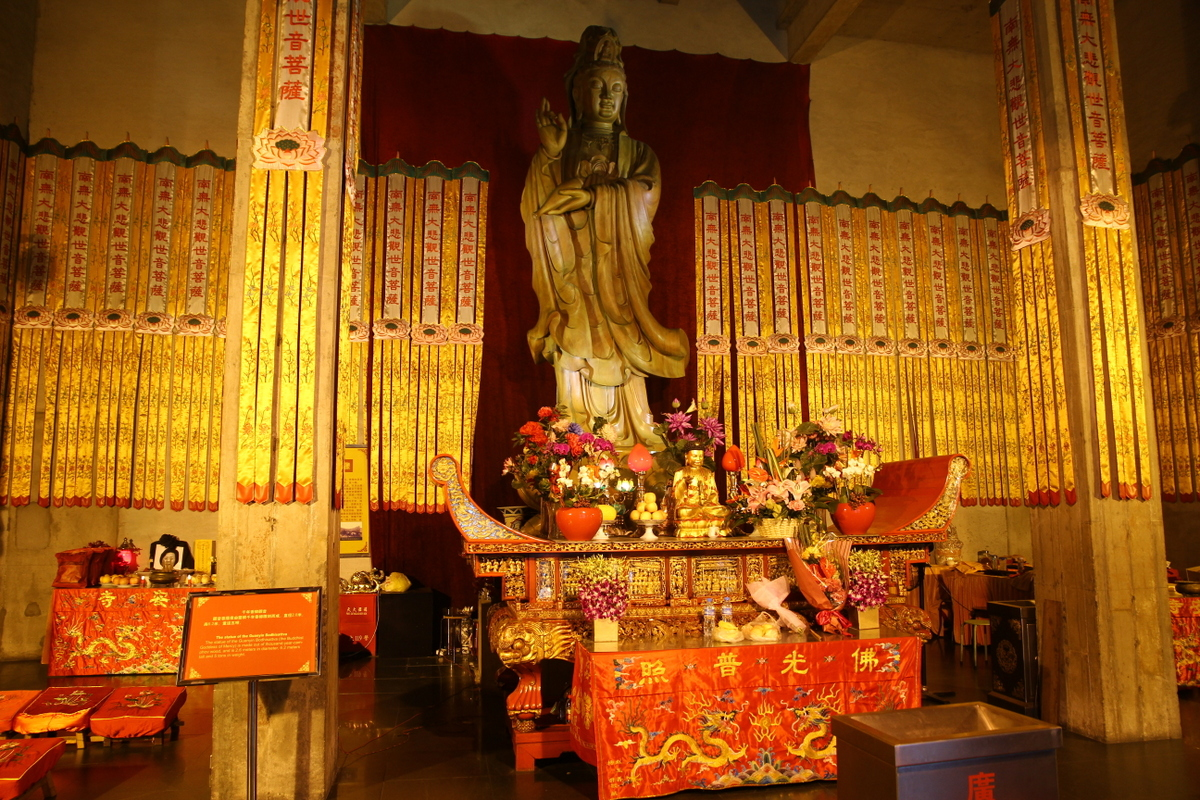 Goddess in the Guanyin hall of Jing ’an Temple, Shanghai